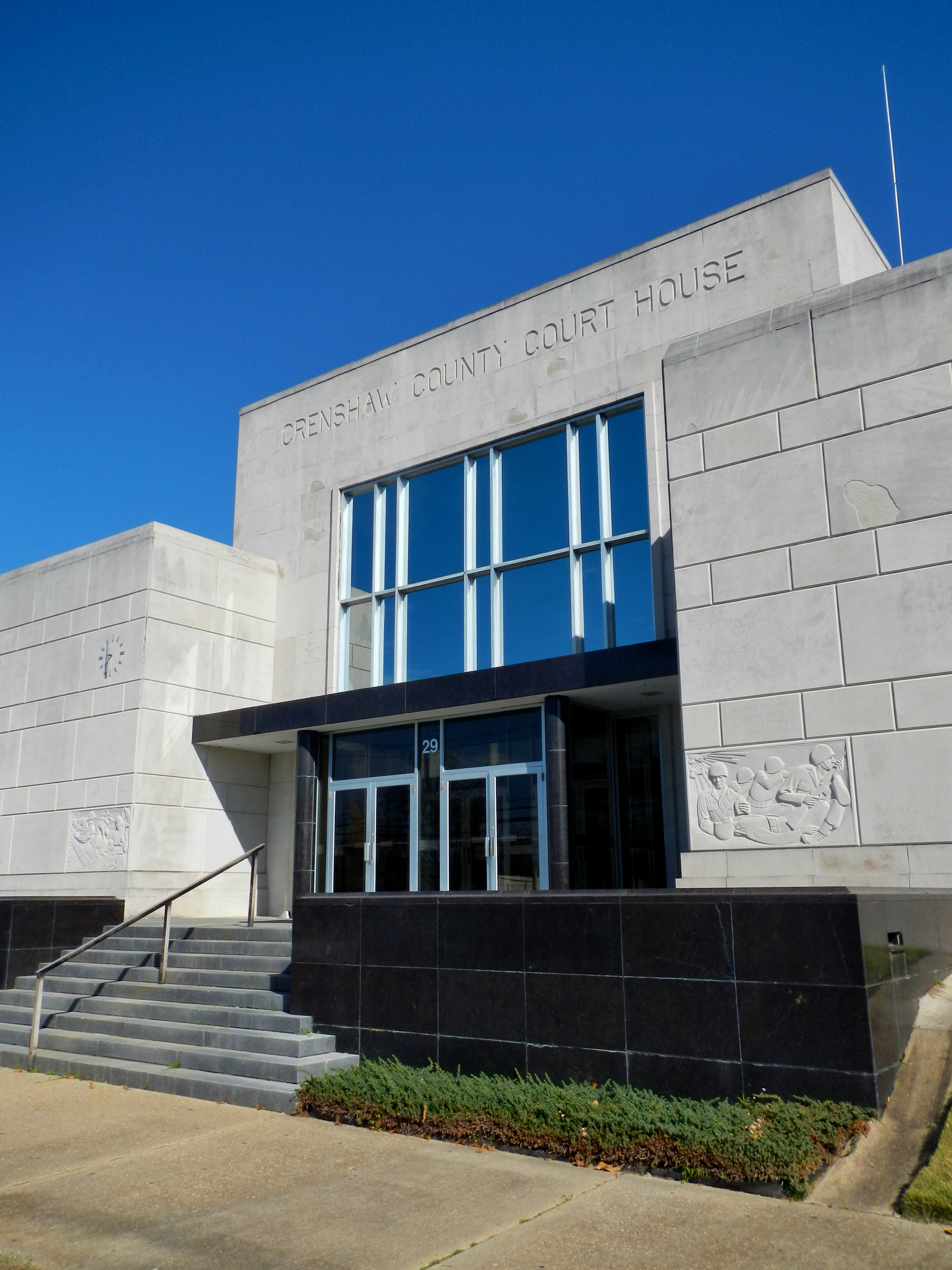 This is a photograph of the Crenshaw County Courthouse in Luverne, Alabama.